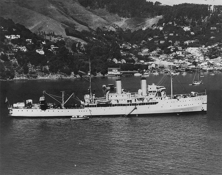 Removed caption read: Photo # NH 99617 USS Aroostook in a harbour, during the 1920s USS Aroostook (CM-3) In a harbor during the 1920s, with a PN-type patrol seaplane on her after deck and another moored off her port side. Official U.S. Navy Photograph, from the collections of the Naval Historical Center.